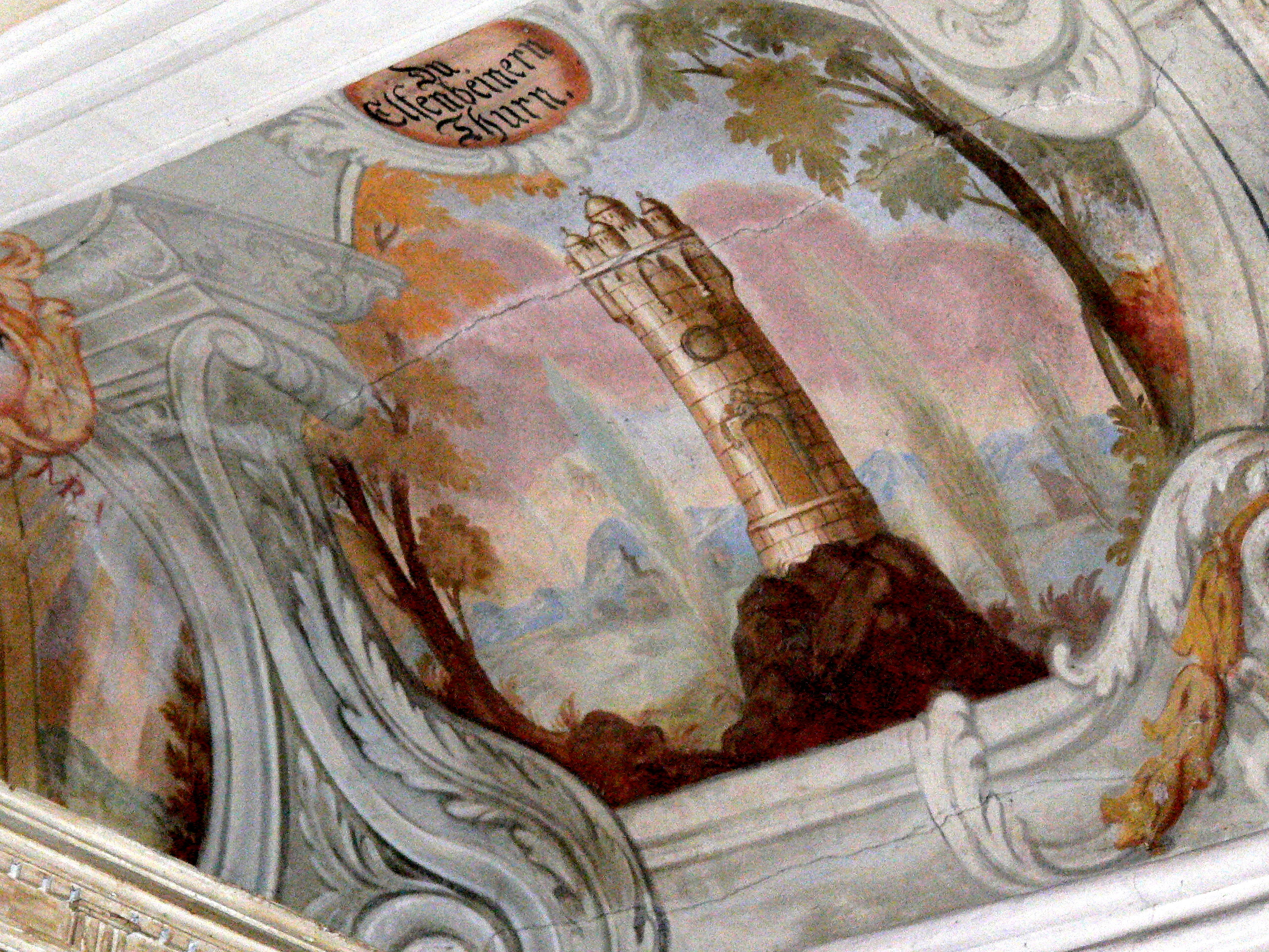 Our Lady´s chapel in Altenmarkt. Fresco illustrating the Lauretan litany "Mary, you tower of ivory".